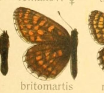 Melitaea aurelia Nick. f. britomartis Assmann = Melitaea britomartis Assmann, 1847